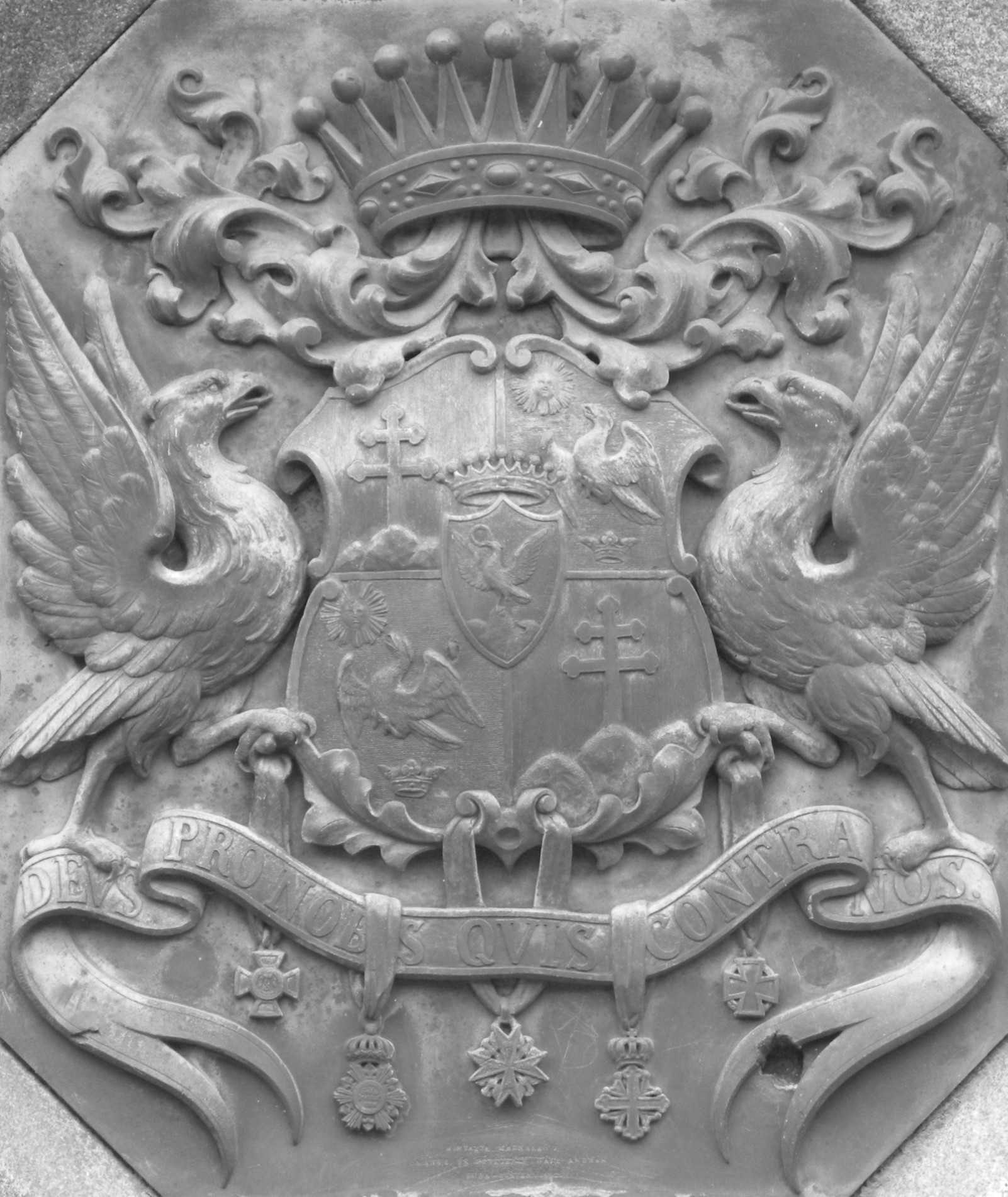 Coat of arms of István Széchényi (1791 - 1860). Pedestal of the lion statue at the Széchényi Chain Bridge (Széchényi Lánchíd), Budapest.